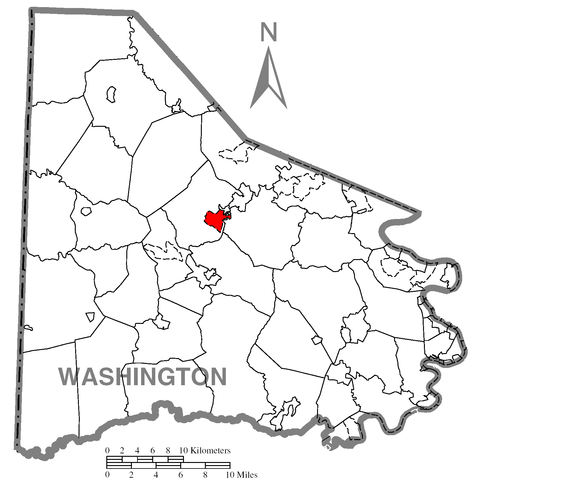 Map of Washington County higlighting McGovern.